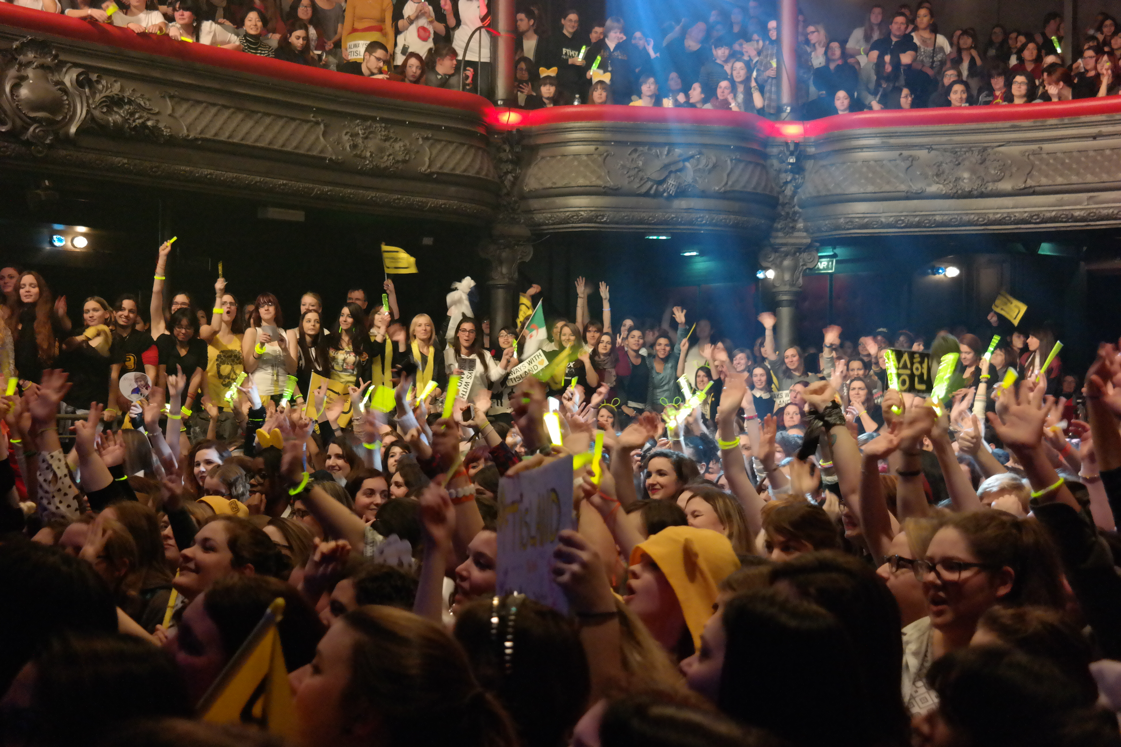 Fans of FTISLAND (Primadonnas) at La Cigale, Paris